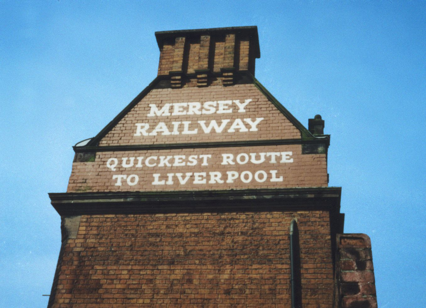 Birkenhead Central on the Mersey Railway - painted signage on the brickwork of the station, which housed the former headquarters of the railway company.